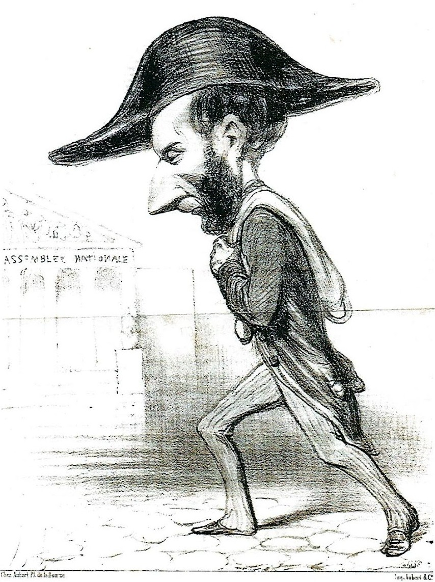 Ariste Jacques Trouvé-Chauvel (8 November 1805 - 14 October 1883), a French politician. Caricature by Daumier published on 16 December 1848 in Charivari